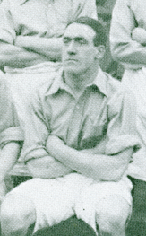 Depicted person: Bill Lacey – Irish footballer and manager